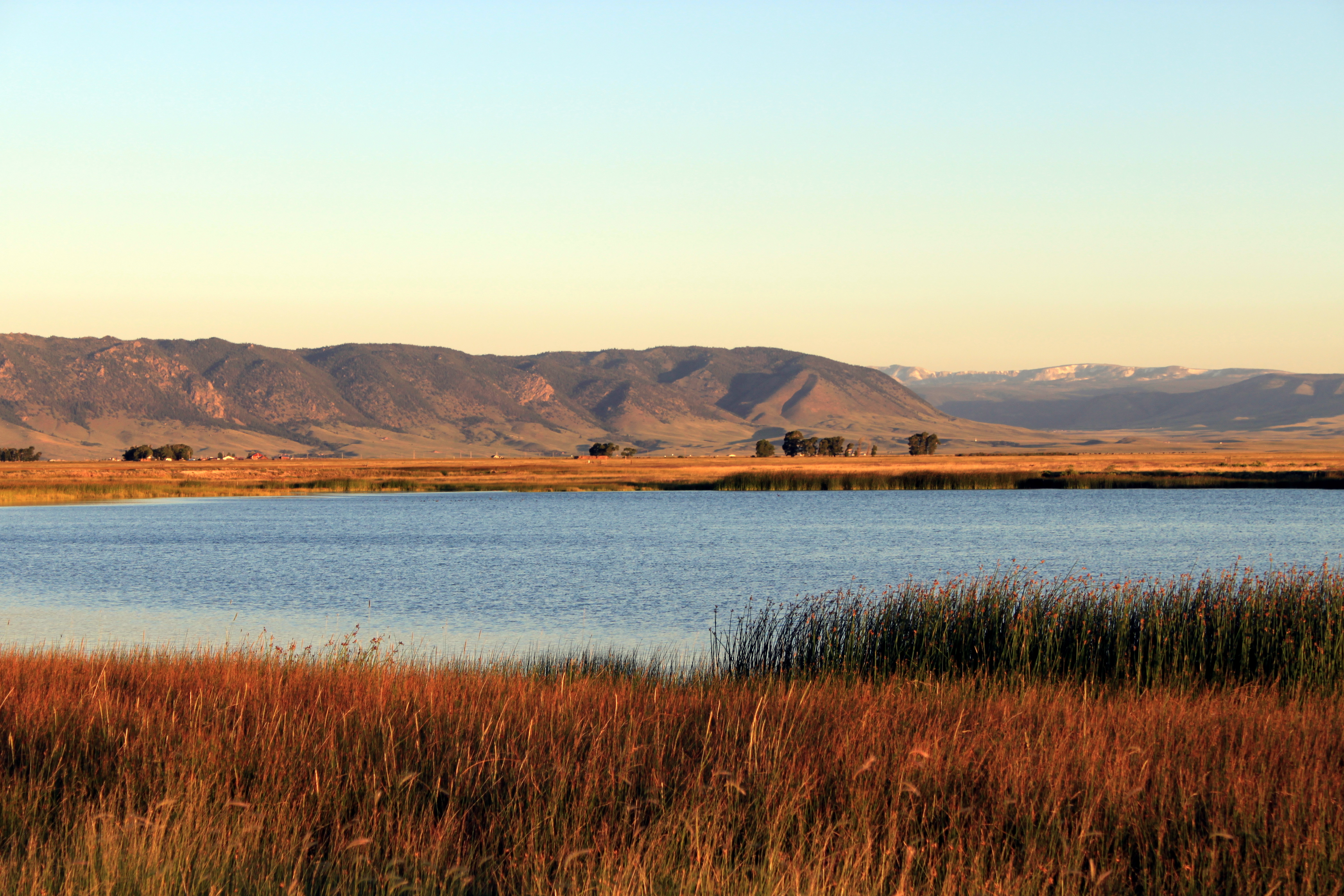 Dawn is a lovely time at Mortenson Lake National Wildlife Refuge, home to the endangered Wyoming toad. Photo Credit: Ryan Moehring / USFWS